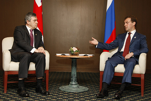 TOYAKO ONSEN, HOKKAIDO, JAPAN. With British Prime Minister Gordon Brown.